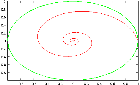 Phase diagram for simple and dumpen harmonic oscilations.